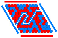 Presentation of the hex game